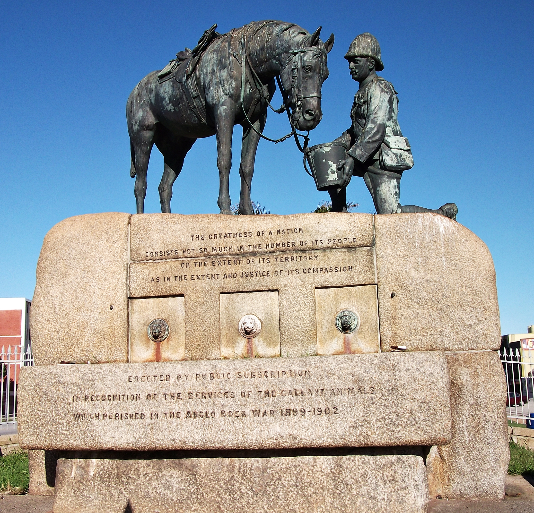 The Horse Memorial (Cape Road, Port Elizabeth, South Africa) bears the words: "greatness of a nation consists not so much in the number of its people or the extent of its territory as in the extent and justice of its compassion" "erected by public subscription in recognition of the services of the gallant animals which perished in the anglo boer war 1899-1902" This media shows a South African Protected Site with SAHRA file reference 9/2/073/0033.